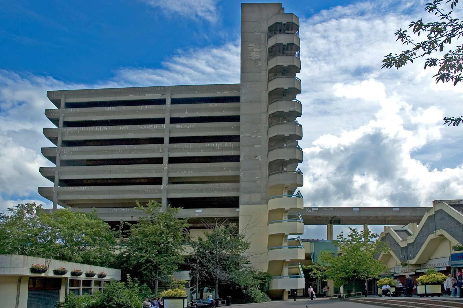 Trinity Centre Car Park, Gateshead, July 2007. Architect: Owen Luder.